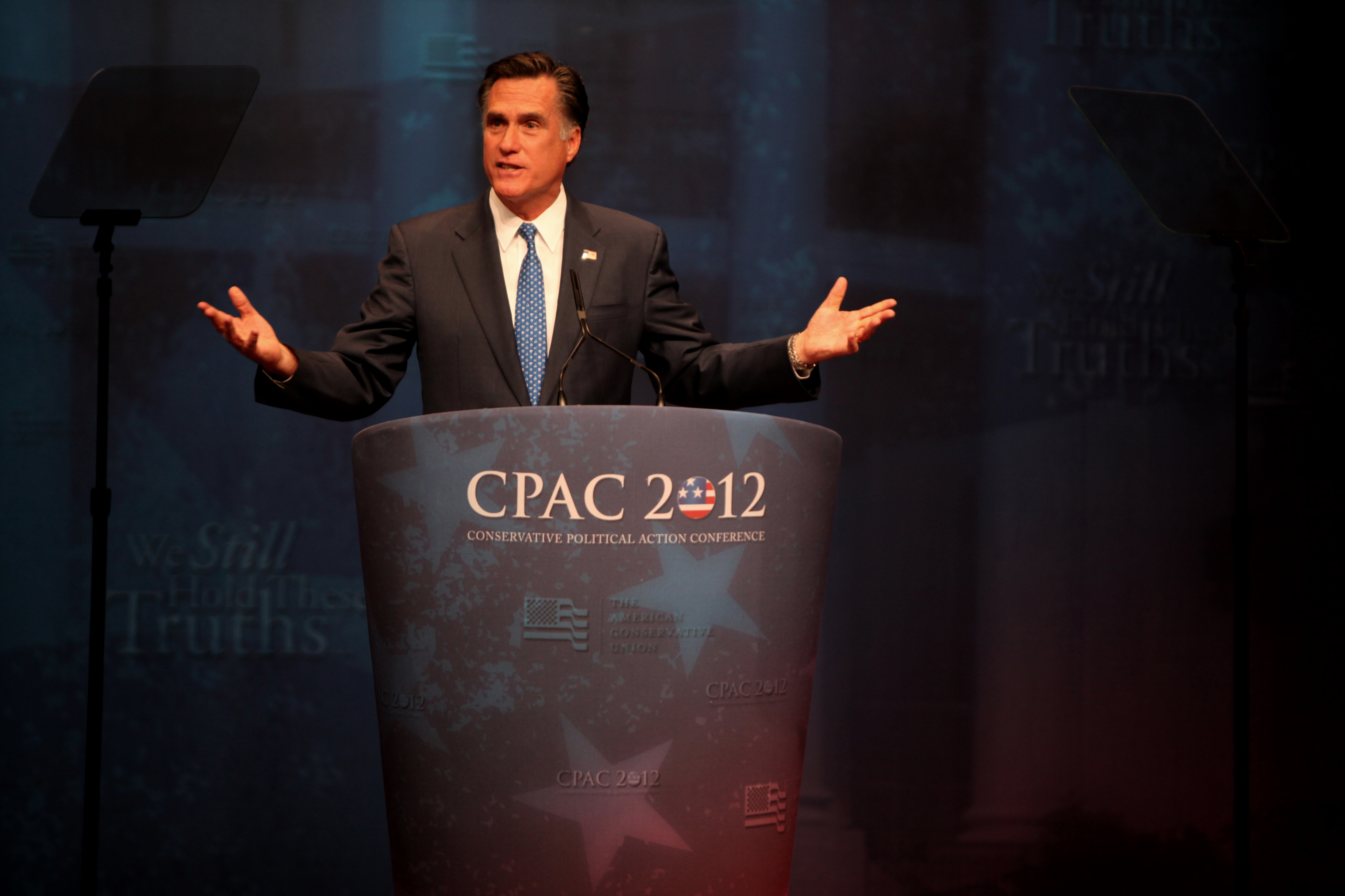 Mitt Romney speaking at CPAC 2012.